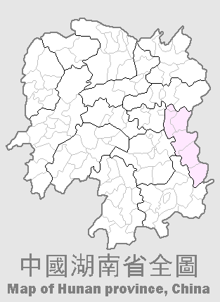 Maps of Hunana Province of China